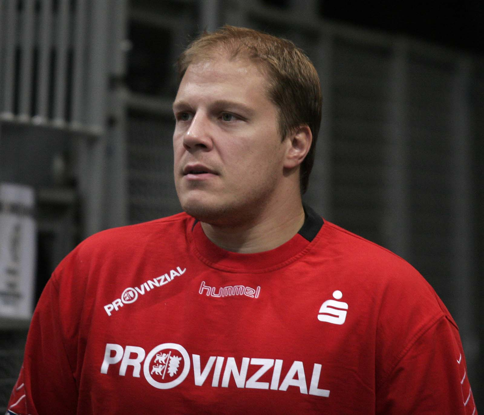 Dane Šijan, handball player of SG Flensburg-Handewitt, in the Kölnarena prior the game VfL Gummersbach - SG Flensburg-Handewitt